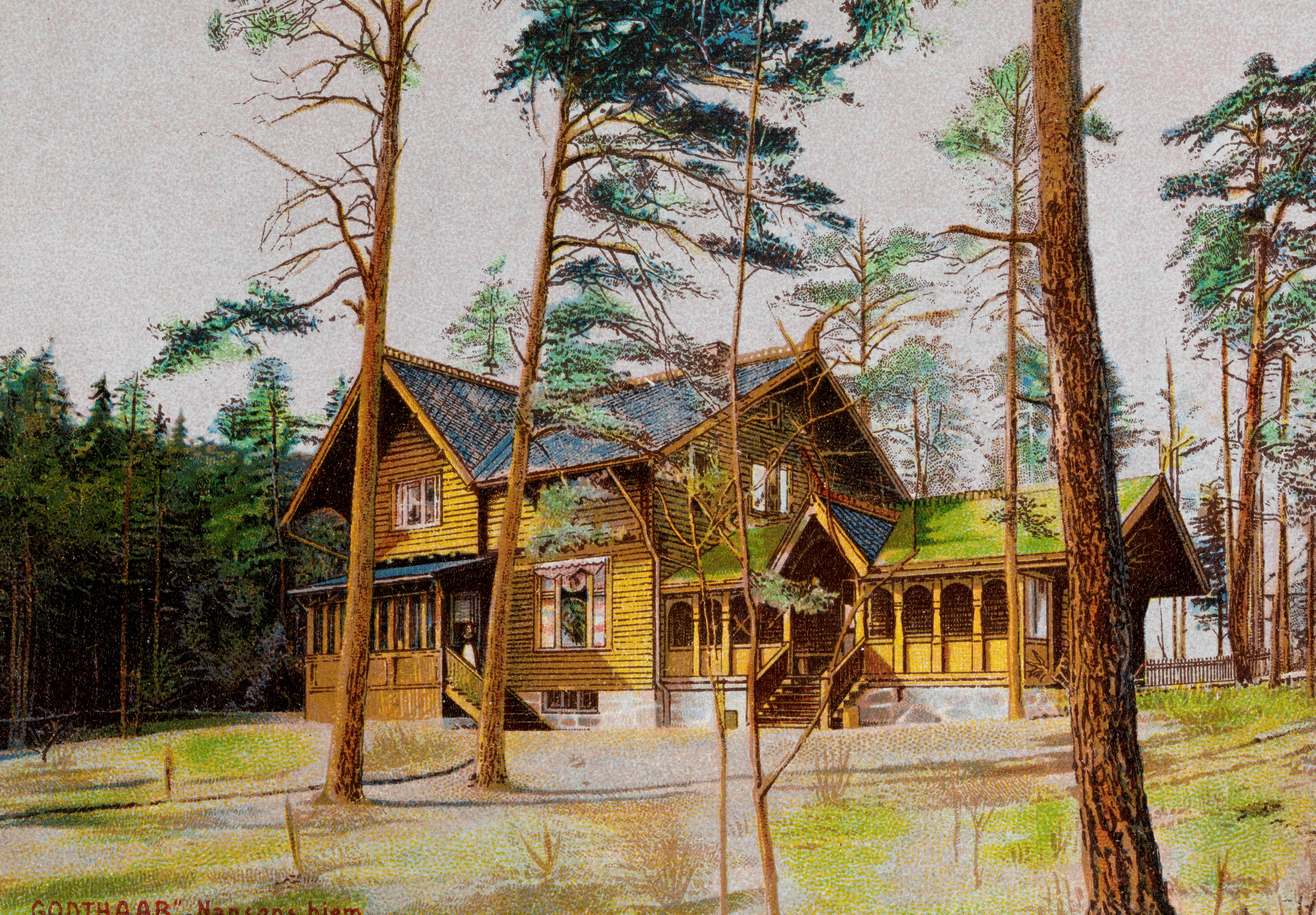 Godthaab, Nansen's home from 1890 to 1901.